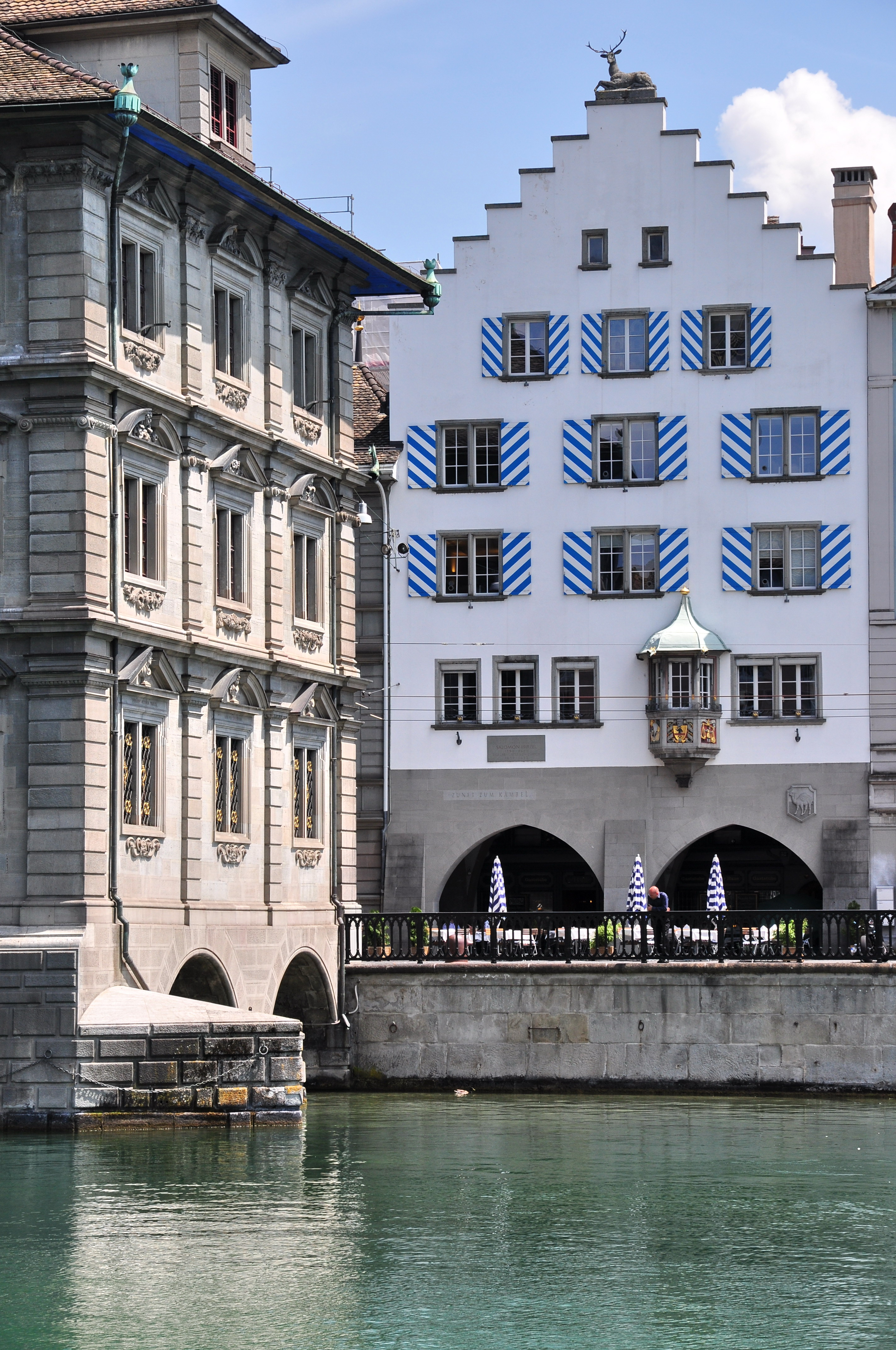 Zürich-Limmatquai : Guild house «zur Haue» of the Zunft zum Kämbel decorated for Sechseläuten in April 2010, Rathaus to the left side.